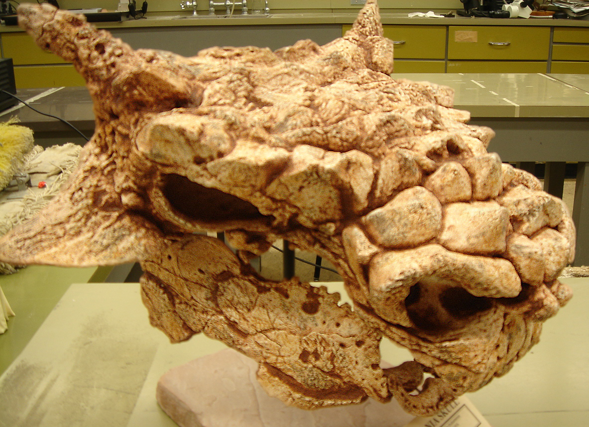 Skull of Minotaurasaurus